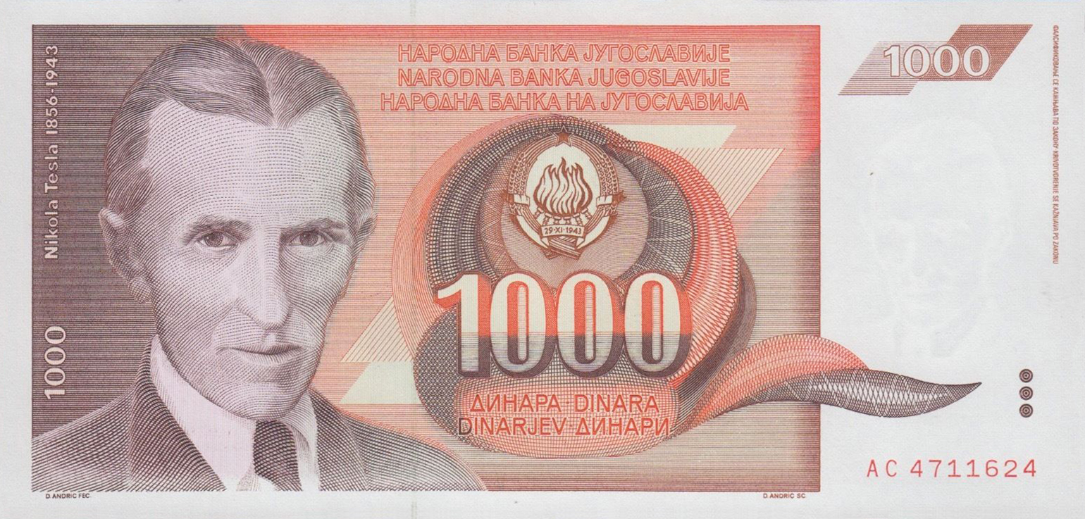 1000 Yugoslav dinars (1990)